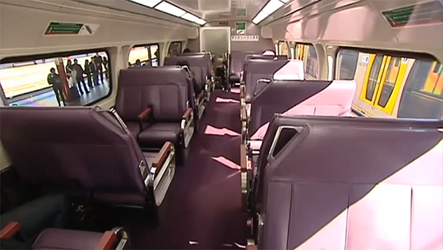 Interior Shot of new Plum Interior for NSW TrainLink V set rolling stock.